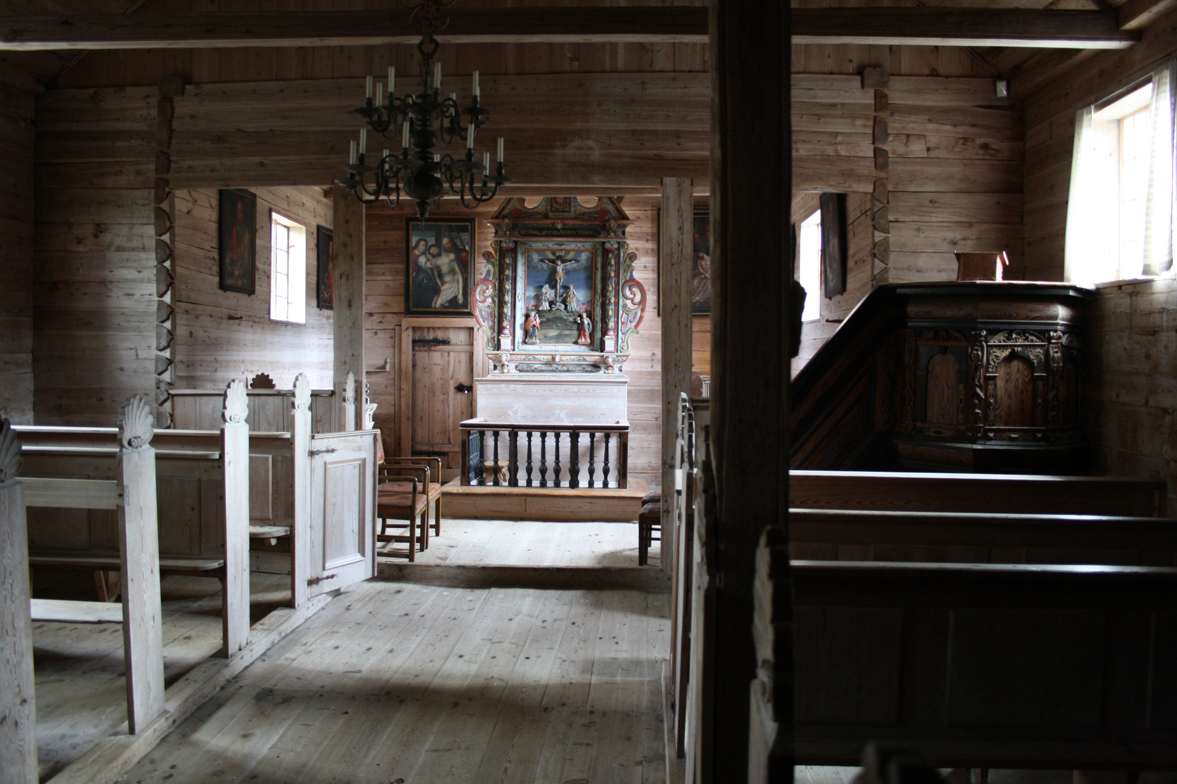 Interior of Lysekloster kapell, Os, Hordaland, Norway